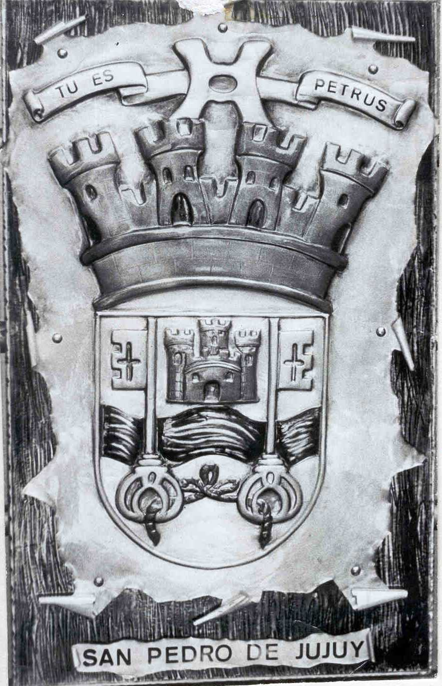 Coat of arms of San Pedro de Jujuy, a city of Jujuy Province, Argentina.